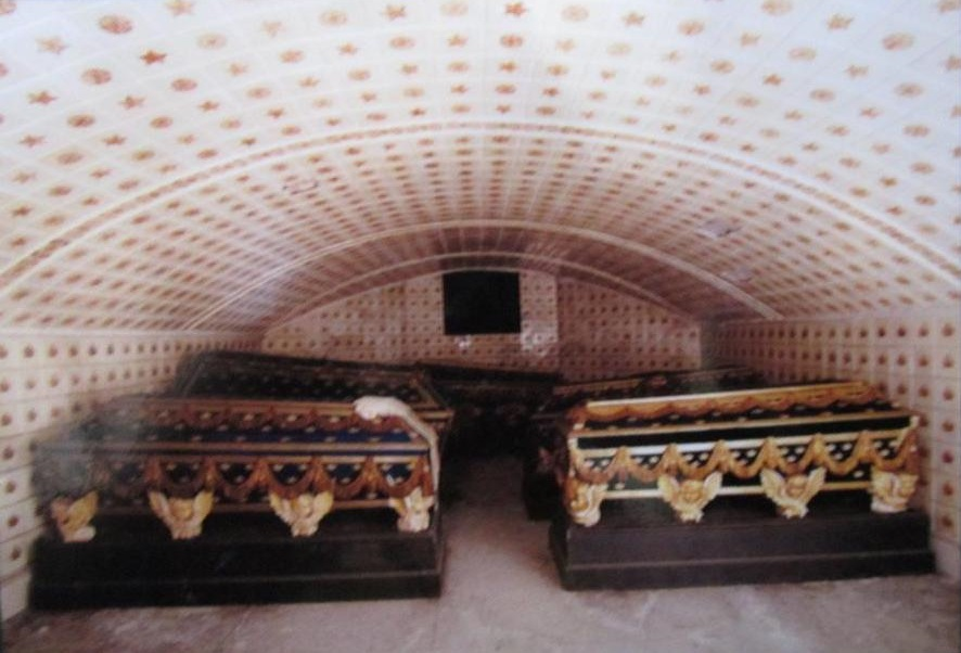 Early color photo of the Bernadottean Crypt at Riddarholm ChurchPlace: Stockholm, Sweden